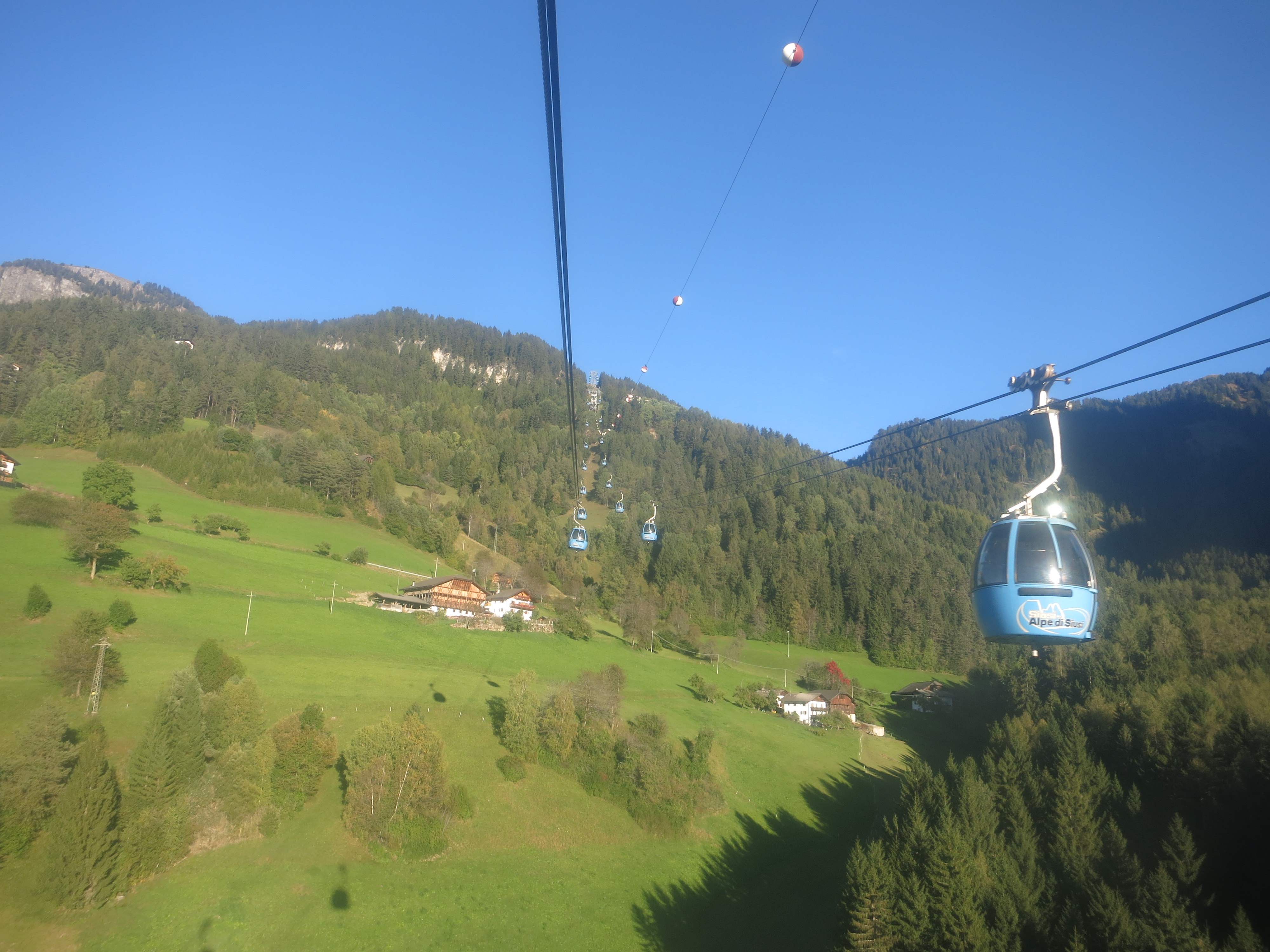 Cable car from Seis to Seiser Alm, Südtirol